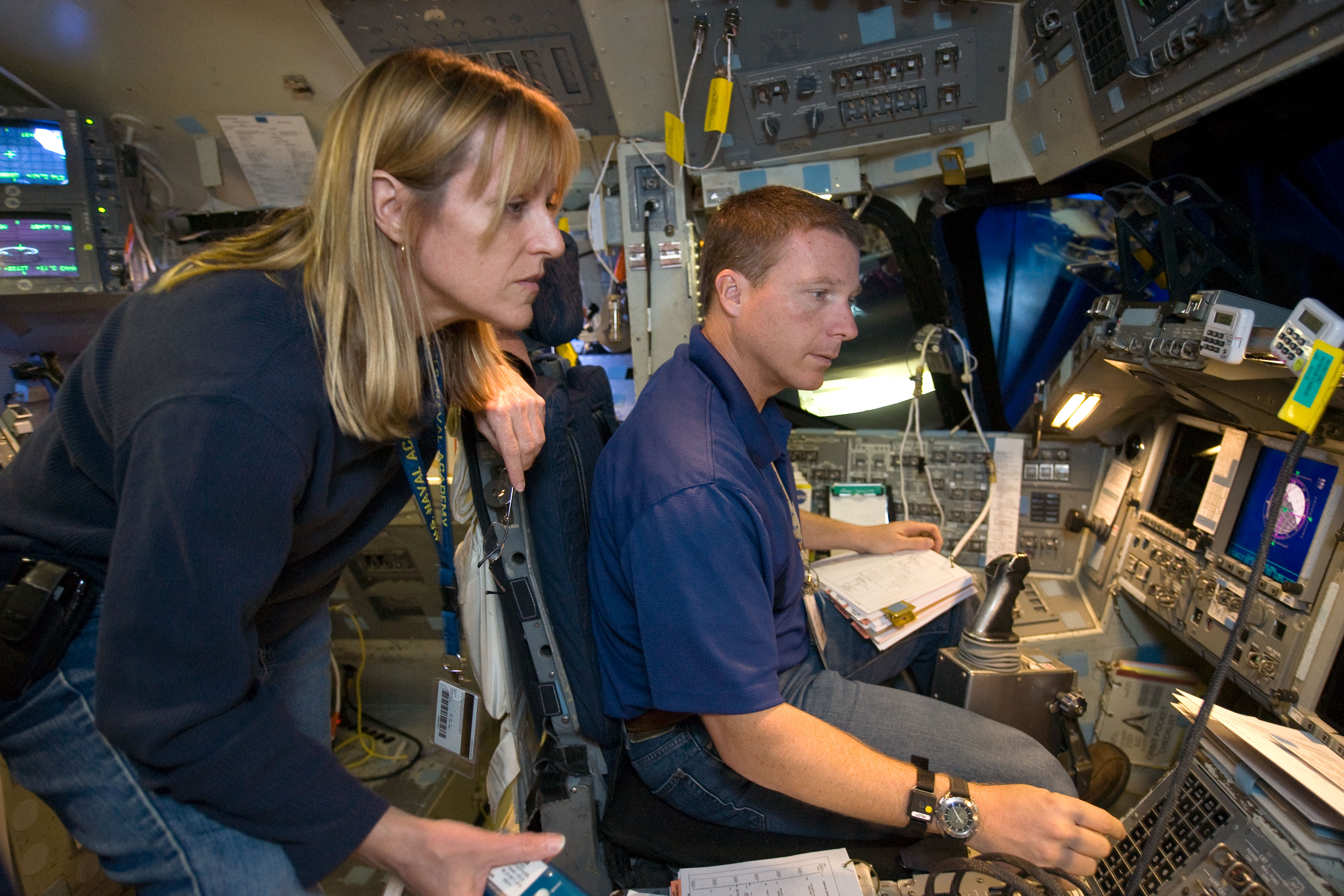 Astronauts Terry Virts, STS-130 pilot; and Kathryn Hire, mission specialist, participate in a training session in the fixed-base shuttle mission simulator (SMS) in the Jake Garn Simulation and Training Facility at Johnson Space Center.